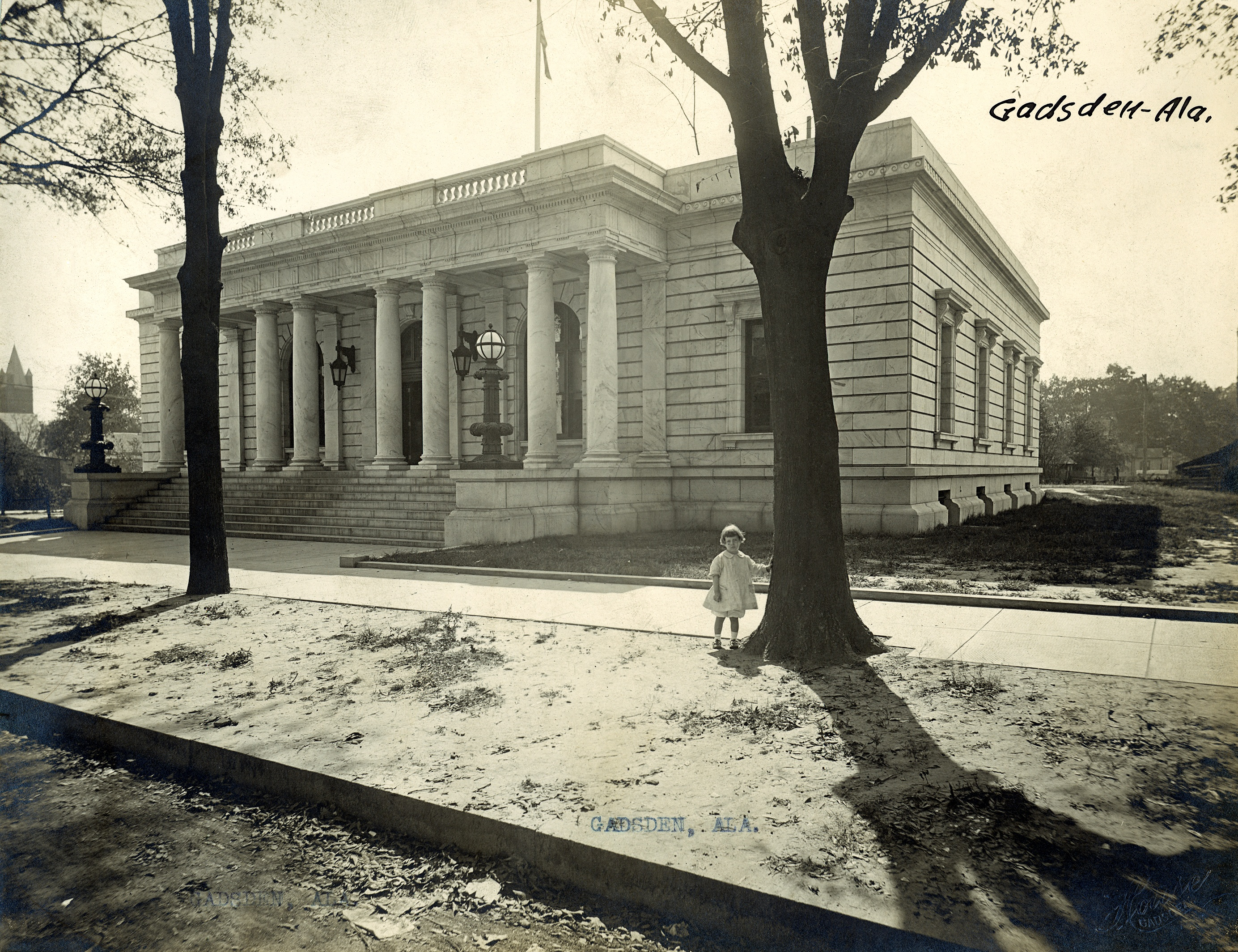 U.S. Post Office (n.d, ca. 1910) Completed in 1910. Supervising Architect: James Knox Taylor Still in use by the U.S. District Court for the Northern District of Alabama; the U.S. Circuit Court for the Northern District of Alabama met here until that court was abolished in 1912.